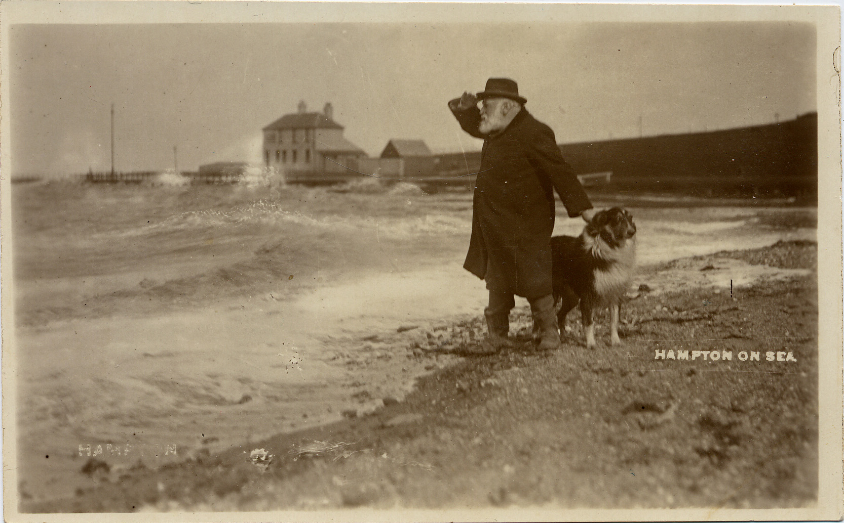 Experimental print for postcard of Edmund Reid at Hampton-on-Sea, Herne Bay, Kent, England in 1912. Reid had retired in 1898, having been head of CID in the Metropolitan police, and his most famous case was the Whitechapel murders in 1888. He moved to Hampton-on-Sea which was lost to sea erosion by 1916. He died in 1917. This is understood to be a scan of an original exposure of the original damaged negative by Fred C. Palmer, so it would be inappropriate to attempt to correct this image. It is one of at least three 1912 experiments at exposure and composition of this negative by the photographer, and this one has been provided by Herne Bay Records Society, which possesses the originals Border The remaining border of this image is important for researchers of this photographer. Some photographers trimmed their images more than others, and Palmer has a reputation for producing smaller postcards than other early 20th century UK photographers. He took his own photos, developed them in-house onto postcard-backed photographic paper and trimmed them himself. This is one of the reasons why the quality of his work is so interesting, and why there is an article and category for him on English Wiki. Researchers need to see exactly where the edge of the postcard is. Thank you for taking the time to read this.